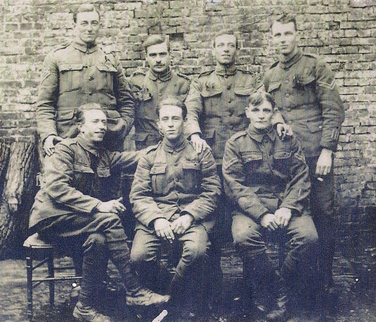 Seven soldiers of the Bermuda Volunteer Rifle Corps, serving with the Lincolnshire Regiment on the Western Front during the First World War: Cyril Harry Palmer, 3/17114 (BVRC 808) R. Dickens, 25334 (BVRC 1022) Albert Churm, 3/17106 (BVRC 810) Eugene Burgess, 3/17130 (BVRC 729) Cecil F. Mullin, 3/17131 (BVRC 774) Laurence Henry Mullin, 3/17105 (BVRC 964) E. Bruce.